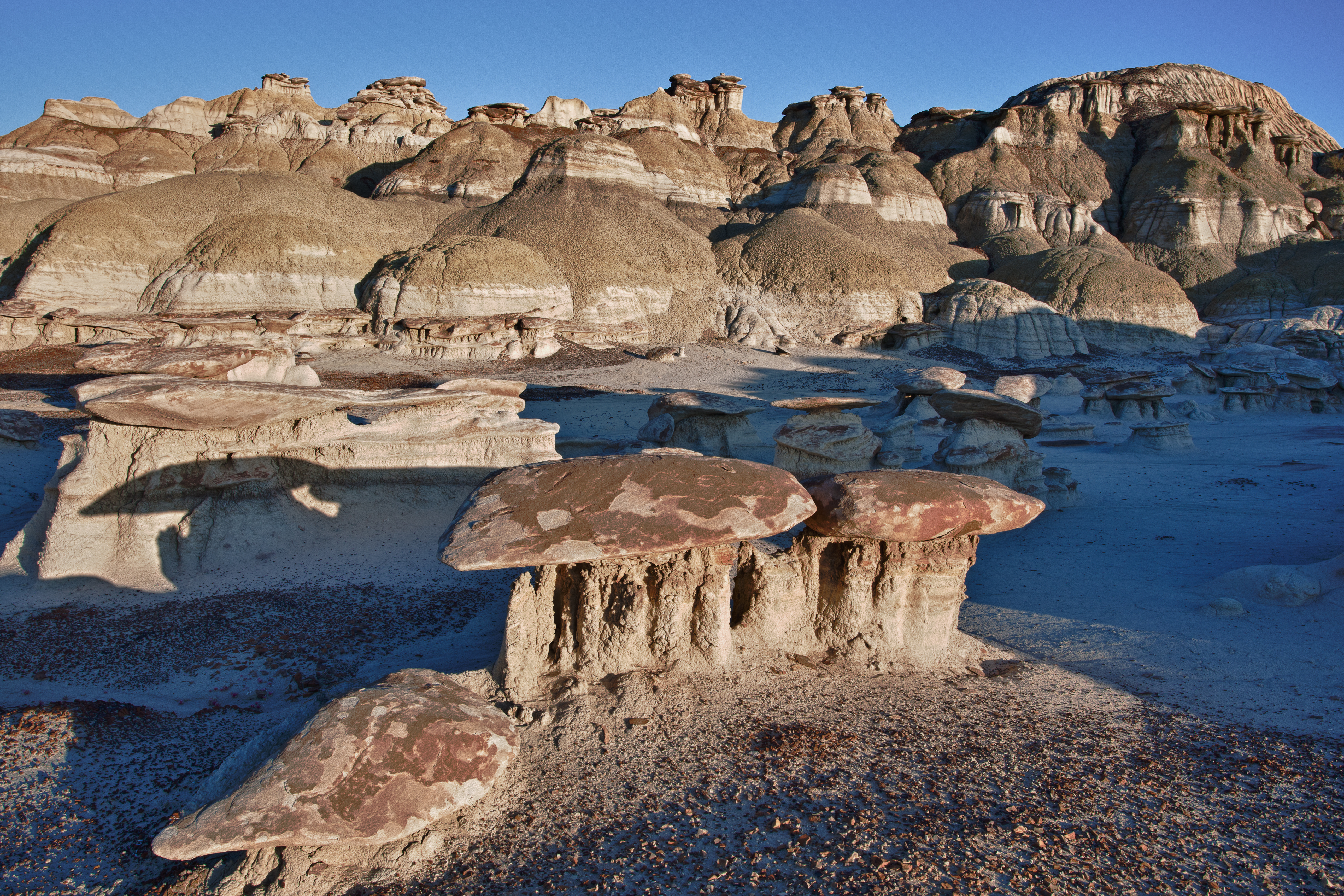 The Ah-shi-sle-pah Wilderness Study Area is located in northwestern New Mexico and is a badland area of rolling water-carved clay hills. The area is rich in fossils and has little vegetation to conceal geological formations. The thin vegetation includes sagebrush, piñon-juniper, Great Basin scrubland, and grassland. It is a landscape of sandstone cap rocks and scenic olive-colored hills. Water in this area is scarce and there are no trails; however, the area is scenic and contains soft colors rarely seen elsewhere. Learn more: Photo: Bob Wick, BLM California